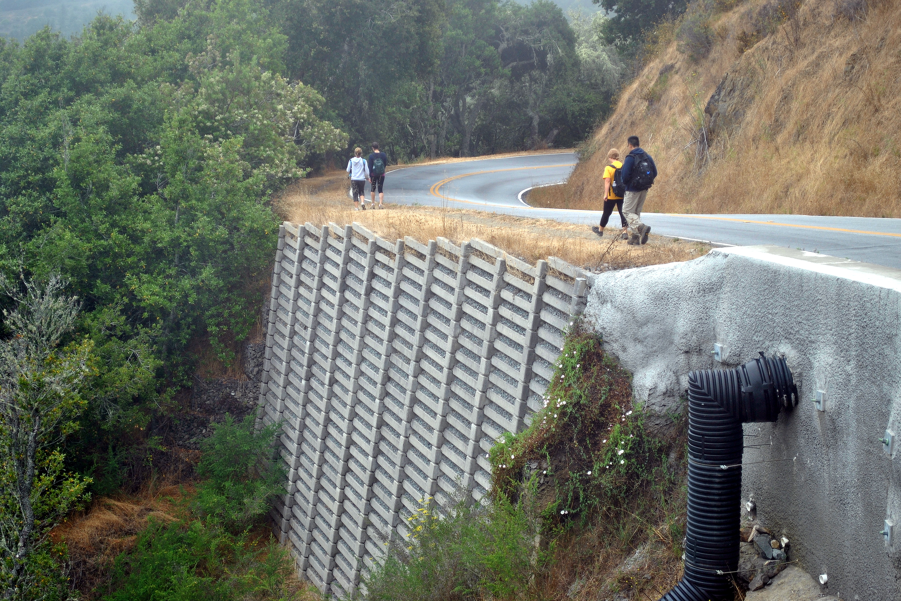 Crib-wall- a retaining wall in Mill Valley, California,USA. The Dipsea trail passes by here.